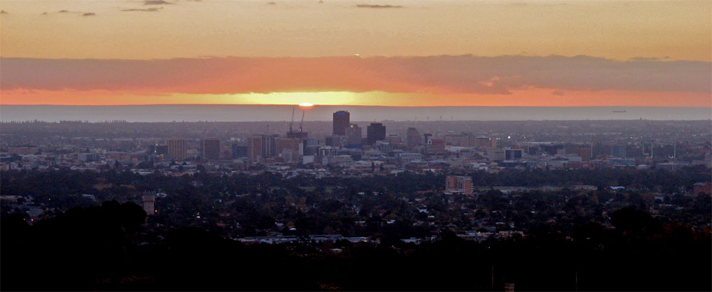 Adelaide skyline at sunset.